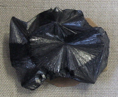 Acicular radiating pyrolusite formations, from Elgersburg, Thuringia, Germany. Photograph taken at the Natural History Museum, London.